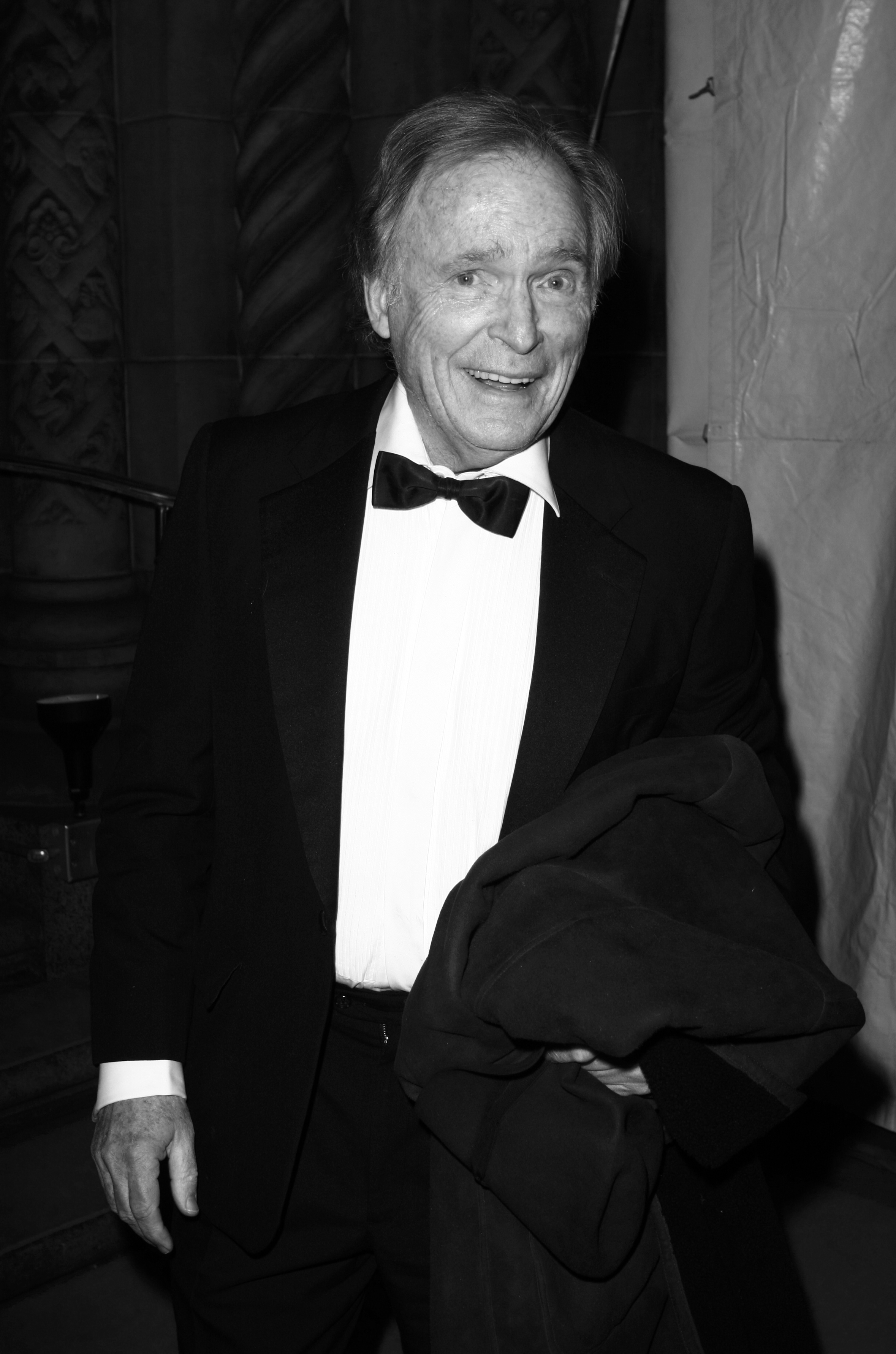 Talk show host Dick Cavett attends the 2008 Amfar Gala at Cipriani 42nd Street in New York City on January 31, 2008.